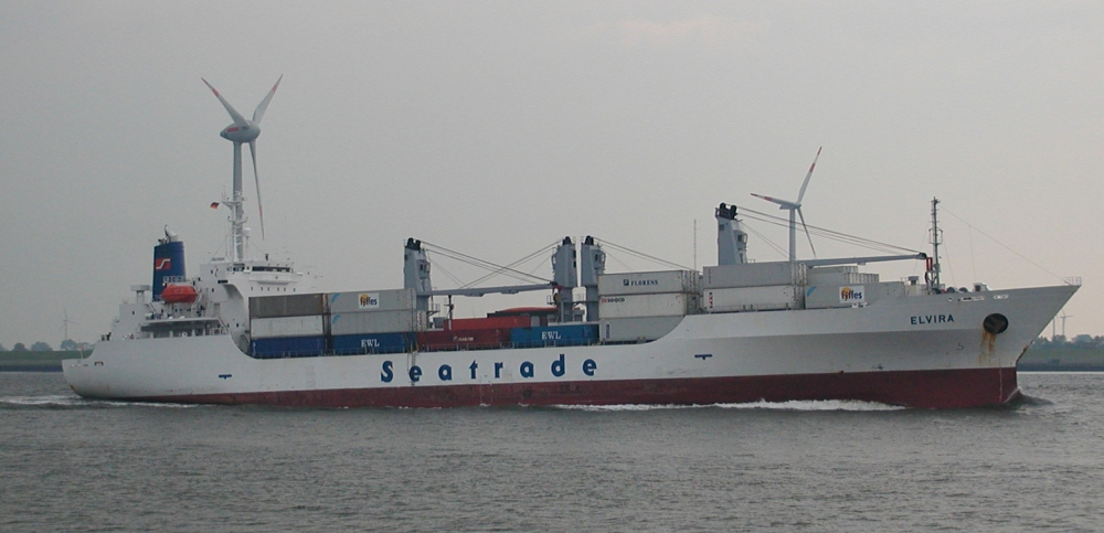 IMO Number: 9202869 MMSI Number: 636091014 Callsign: A8IP2 Beam: 23 m Length: 152 m